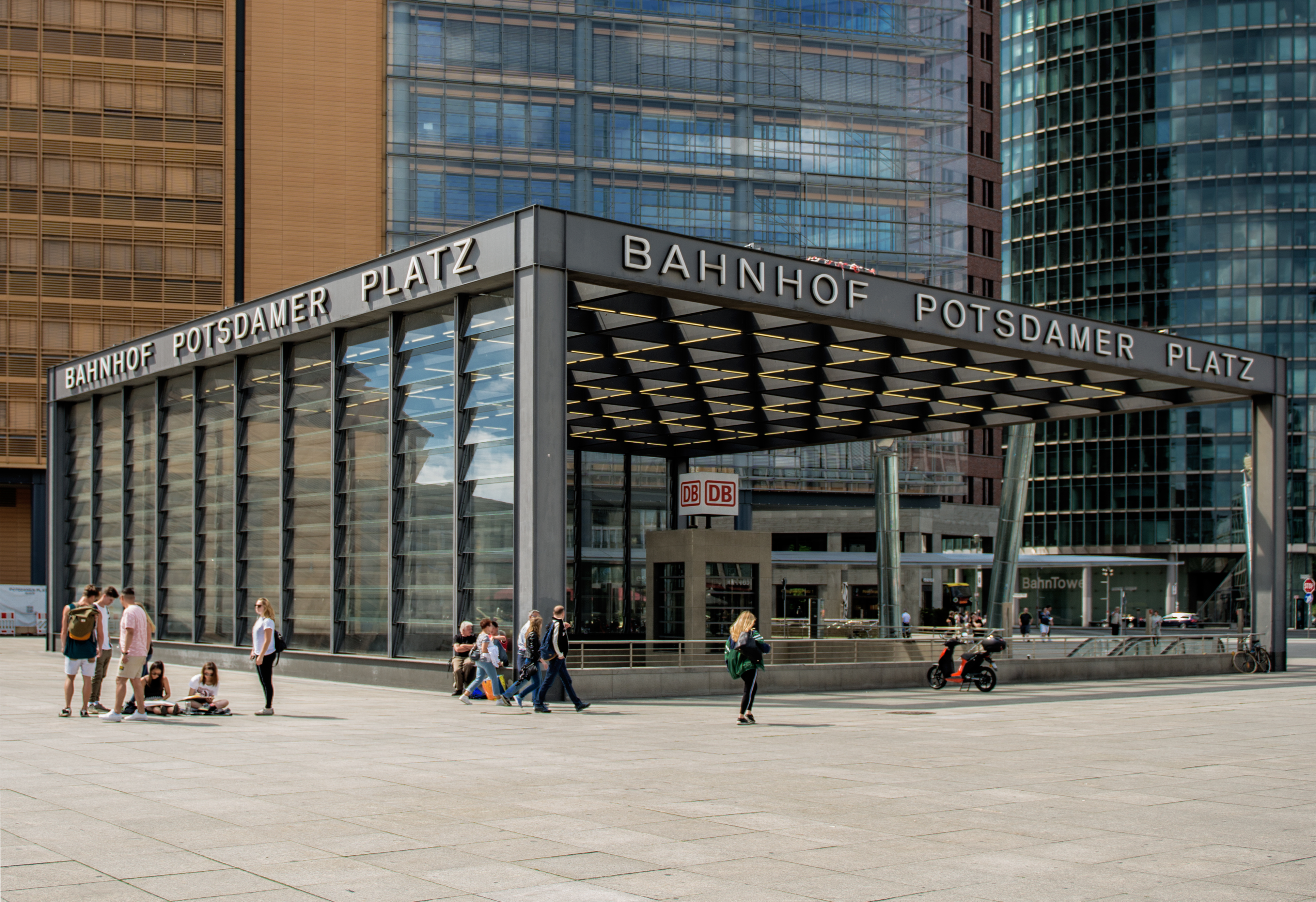 Berlin Potsdamer Platz Station - The South Entrance